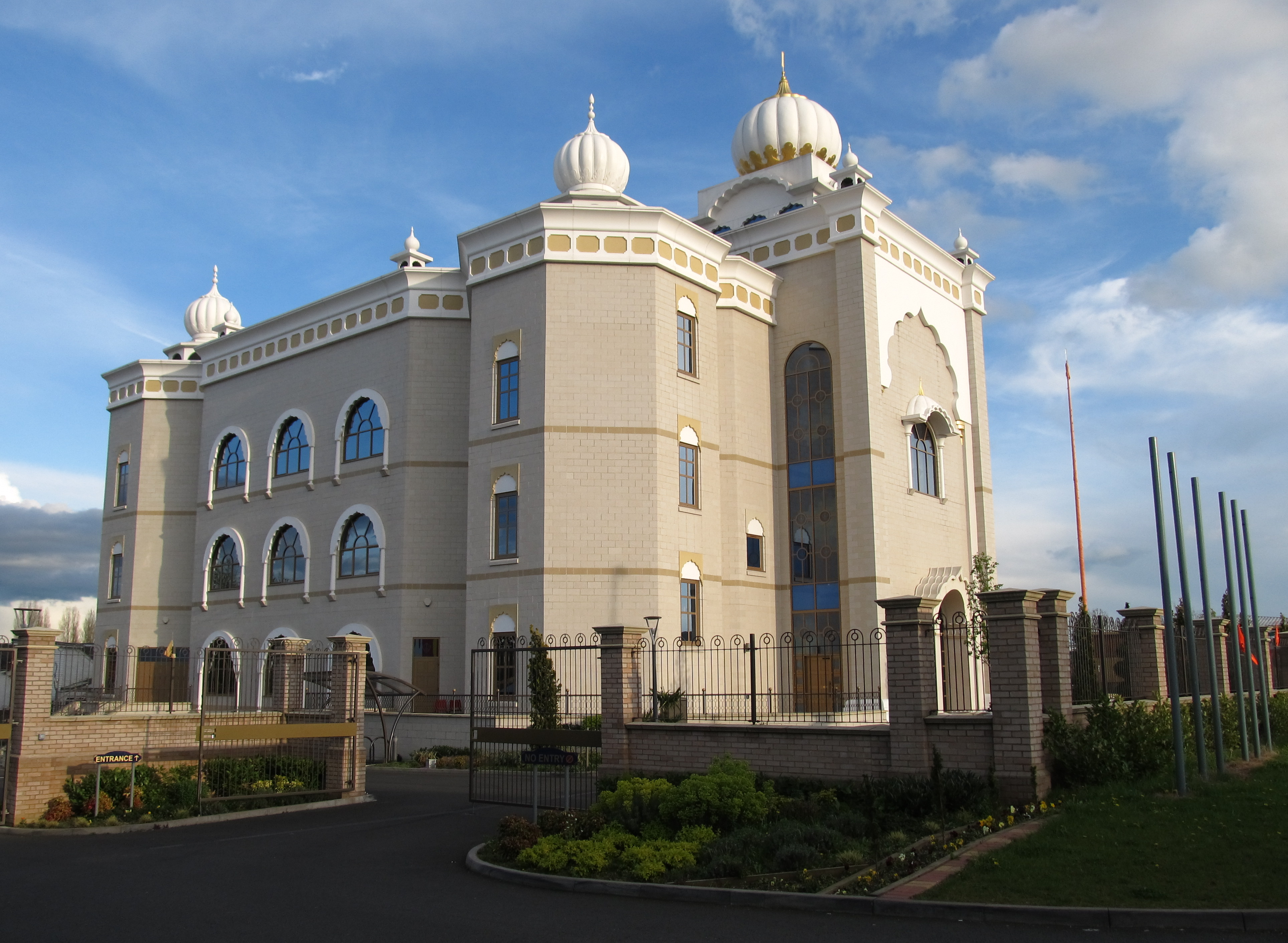 Gurdwara Sahib Leamington & Warwick from road entrance, the Sikh Temple in Leamington Spa. The domes can be seen from some distance. The temple is seen from itd road driveway off Tachbrook Park Drive, the spine road of the Tachbrook Park business park in the southern hinterland of Leamington and Warwick.